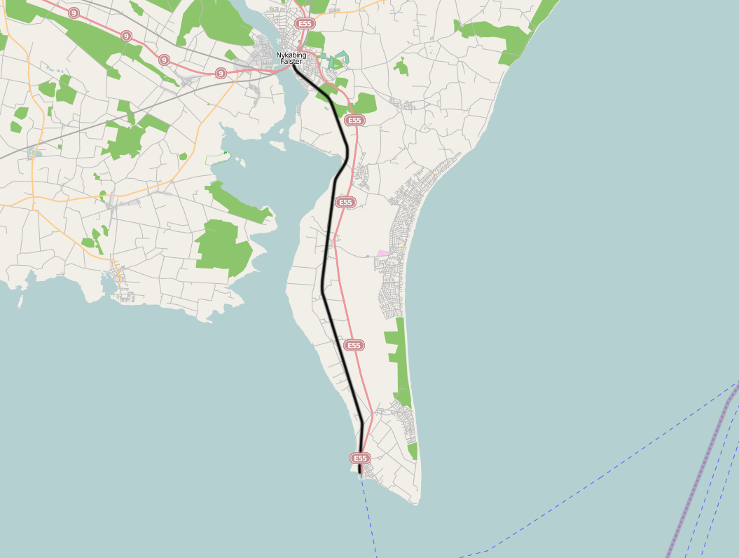 Railway line Nykøbing Falster - Gedser